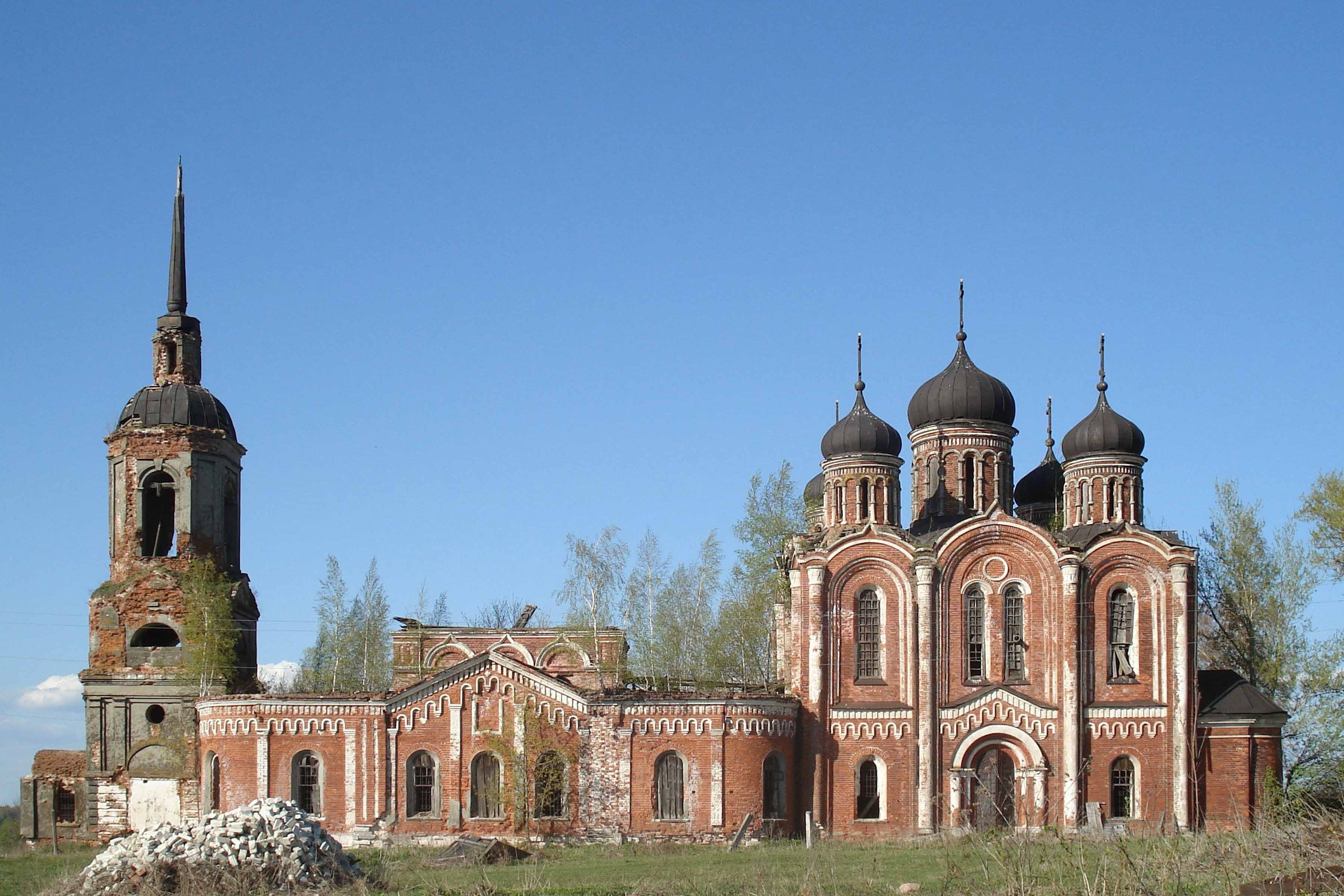 Trinity Church. The village of Krasno. Nizhegorodskaya oblast.